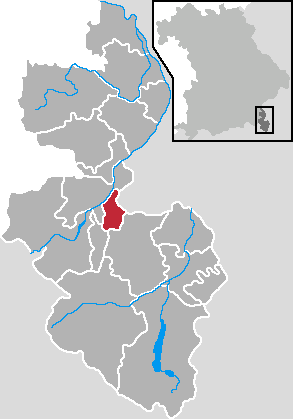 Locator maps of municipalities in Bavaria - District Berchtesgadener Land